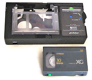 VHS-C to full-size-VHS adaptor and a VHS-C cassette (front)